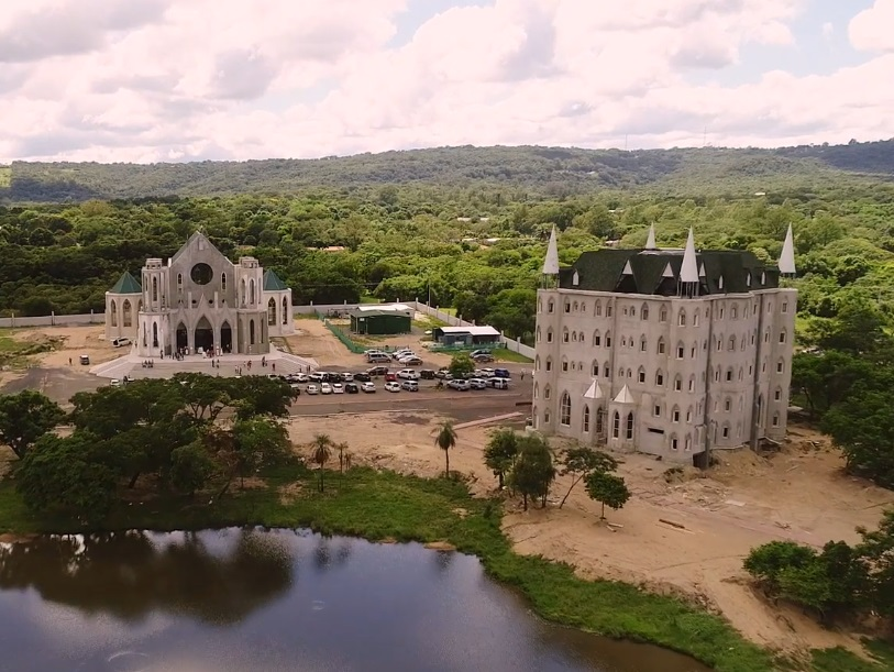 Heraldic Church in Ypacaraí, Paraguay